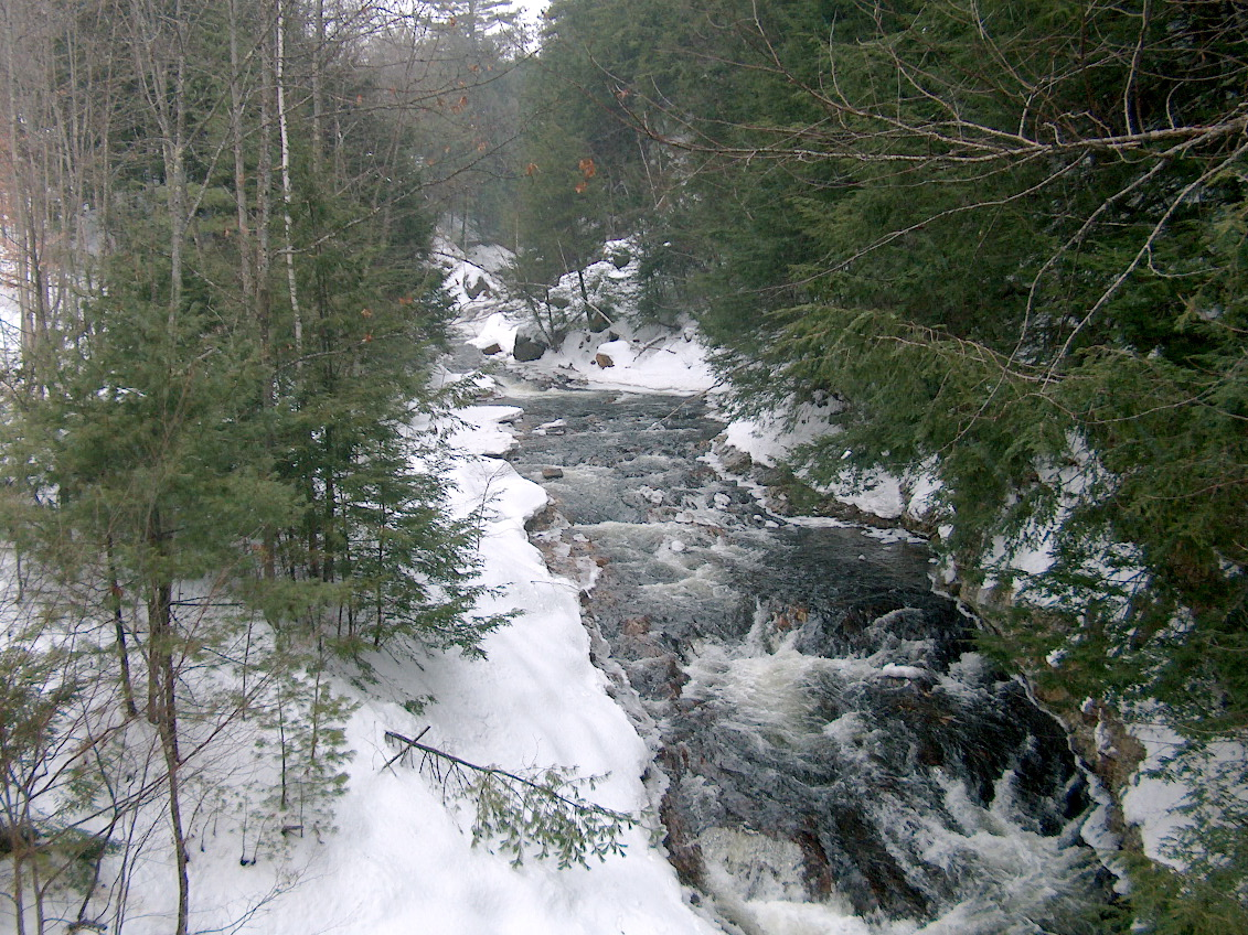 The Beebe River in Campton, New Hampshire. Photo by Ken Gallager, Dec. 27, 2007.